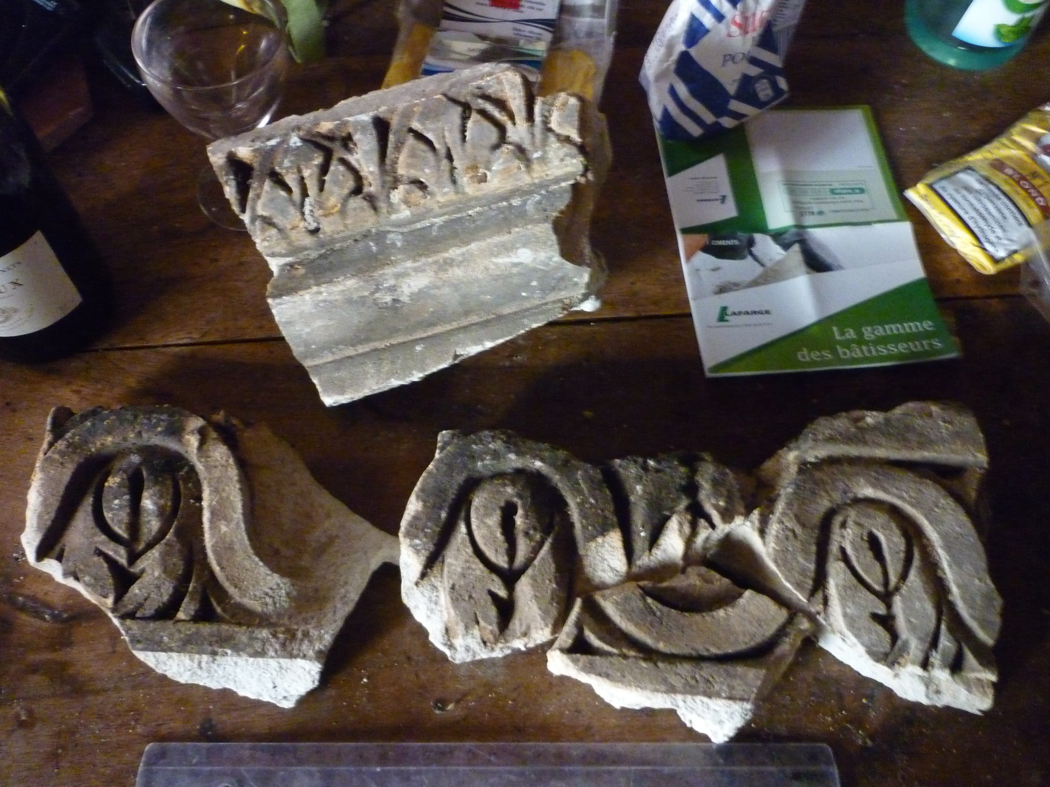 Gypseries Riez la Romaine